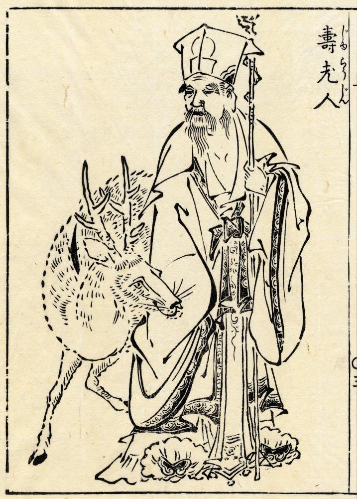 Jurojin, japanese god of longevity (one of the shichi fukujin)